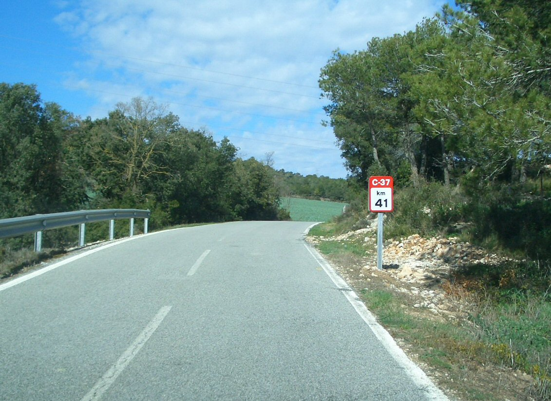 C-37 Road sign, Catalonia.